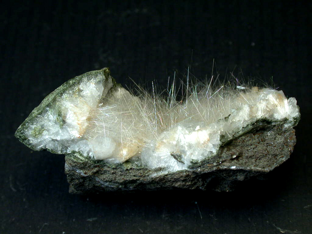 Mesolite, Analcime Locality: Bear Creek Quarry (Whipple Quarry), Drain, Douglas County, Oregon, USA Original description: A 4.6 by 2.6 cms mass of Mesolite needles on Analcime crystals.